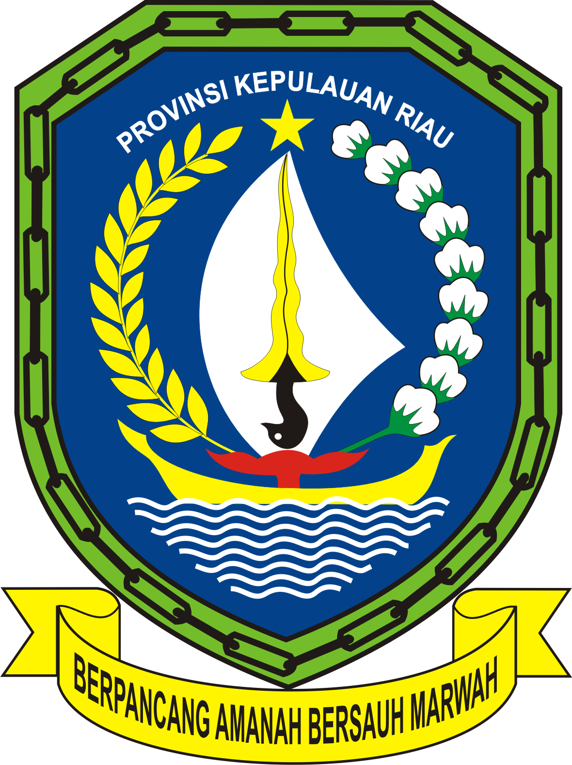 Coat of arms of Riau Islands Province, Indonesia